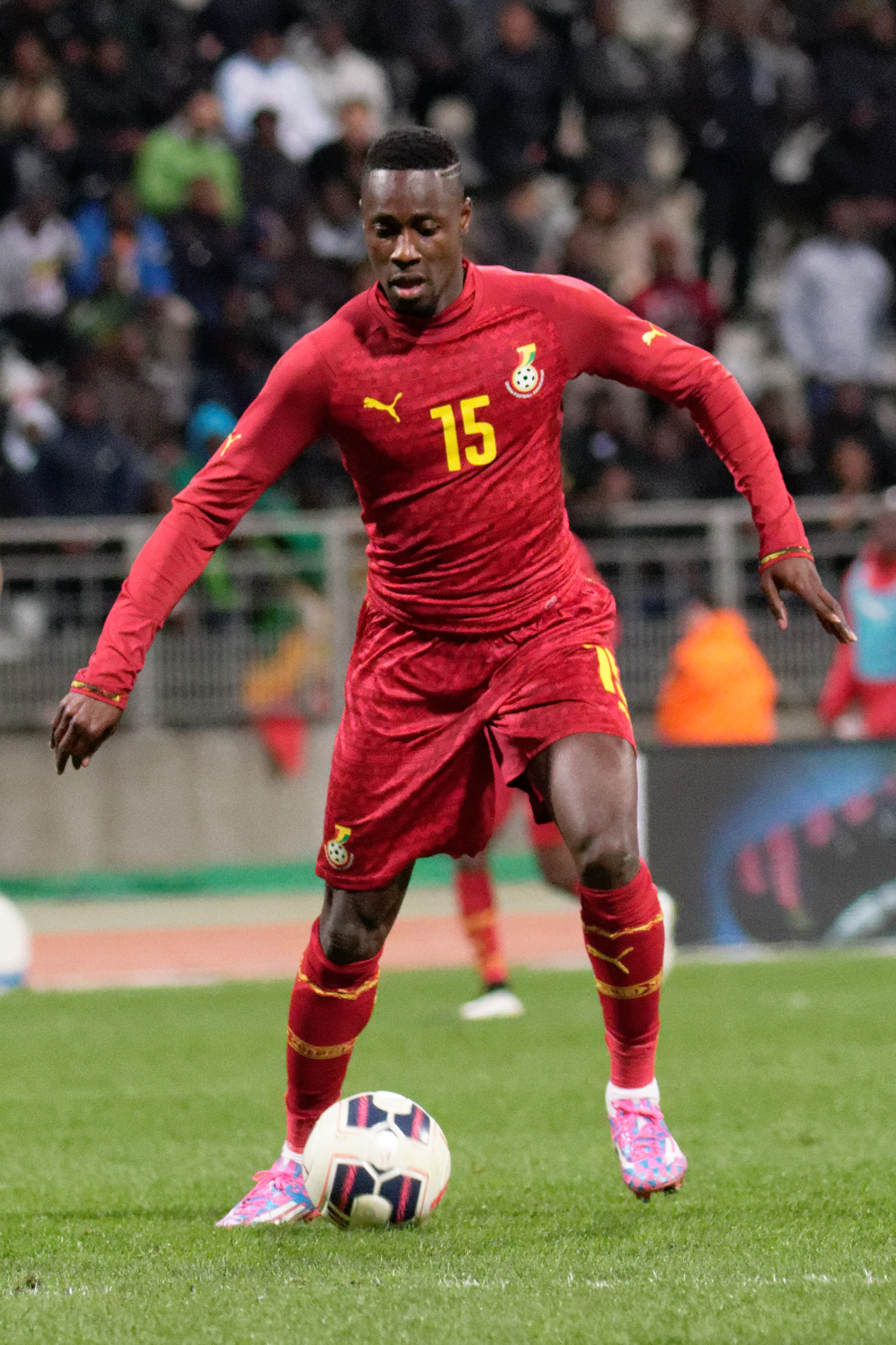 Mali vs Ghana, exhibition game at Paris, 31st March 2015.